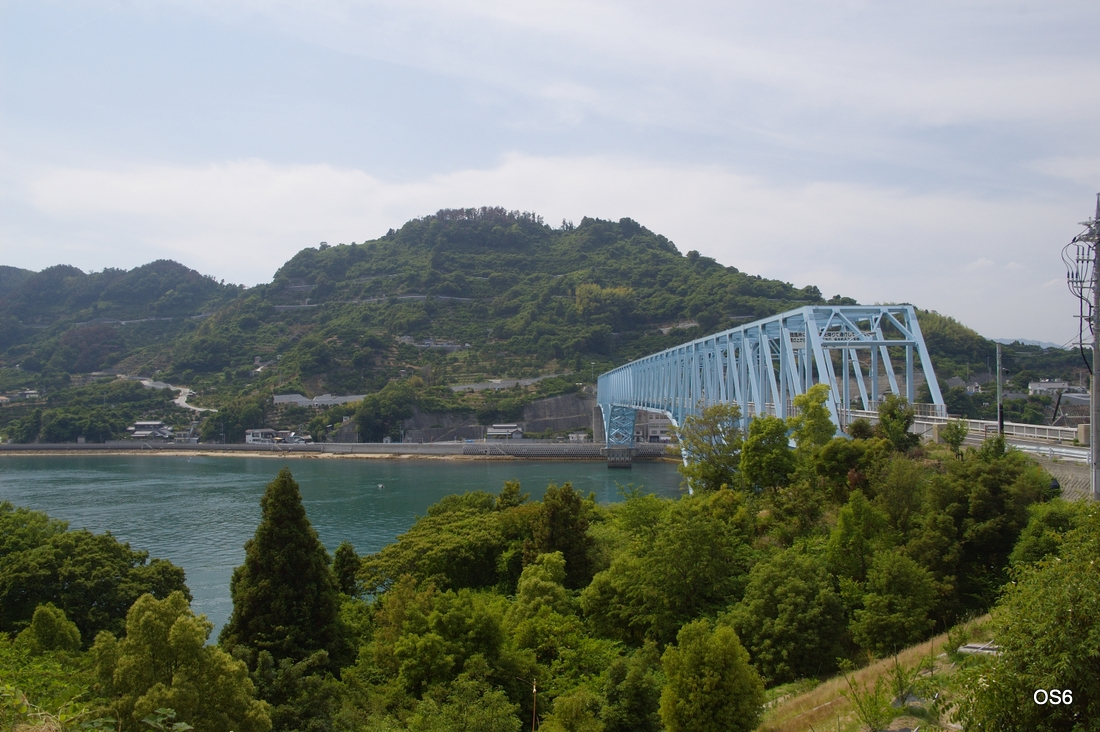 The Kamagari Bridge in Hiroshima prefecture